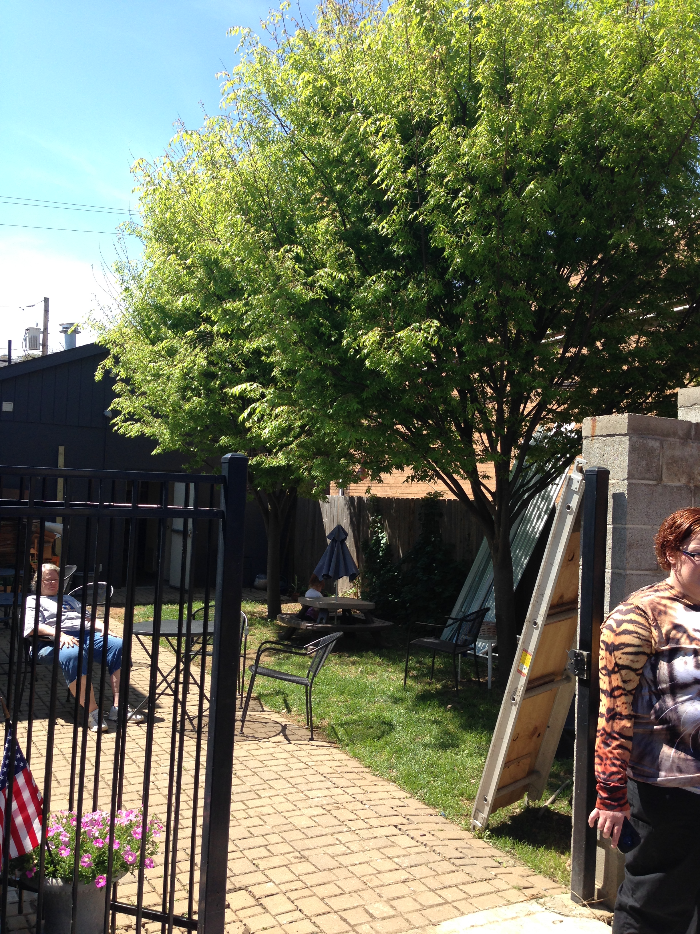 Sharpsburg Community Library.